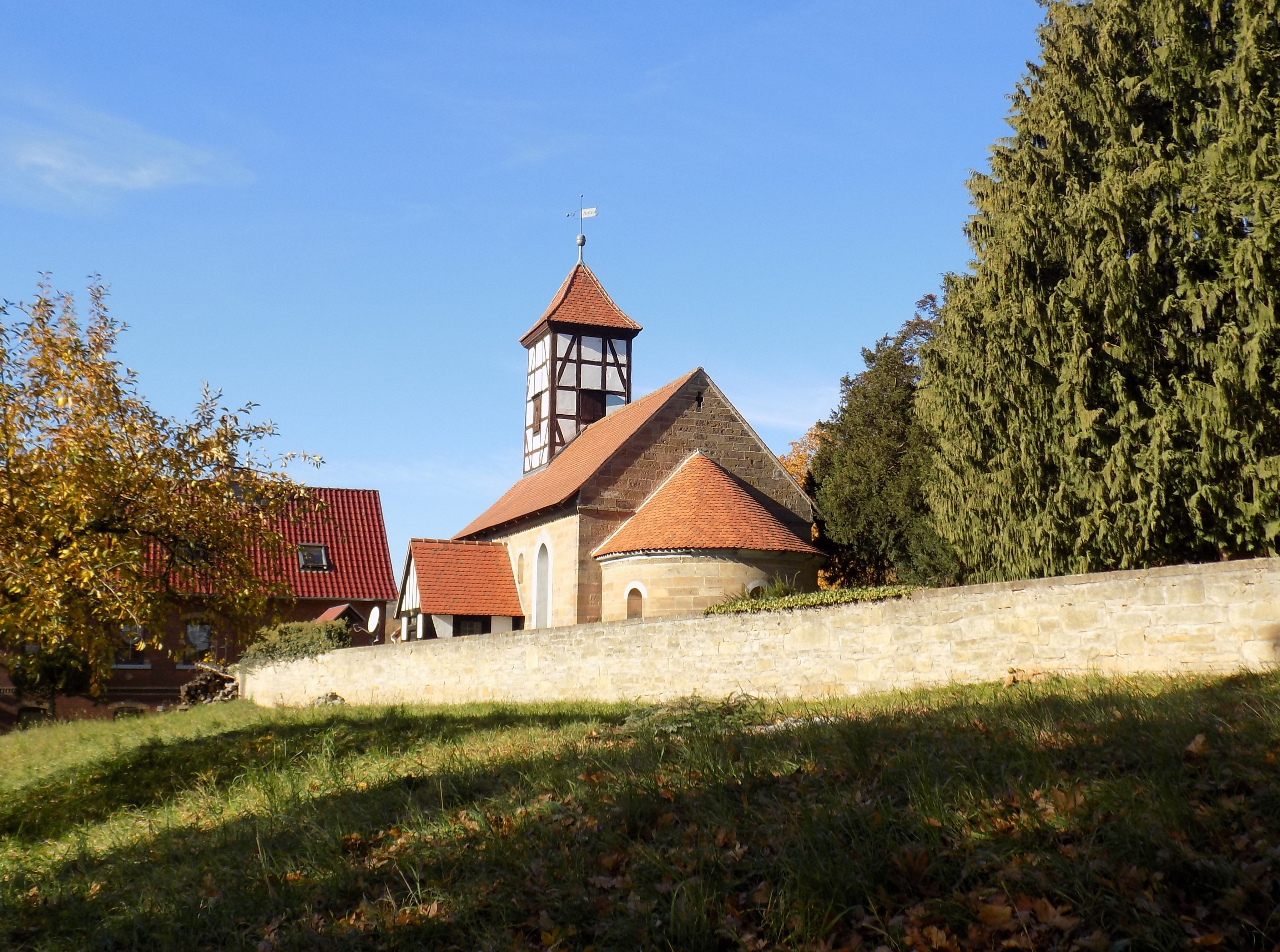 Schkauditz church (Wetterzeube, district: Burgenlandkreis, Saxony-Anhalt)